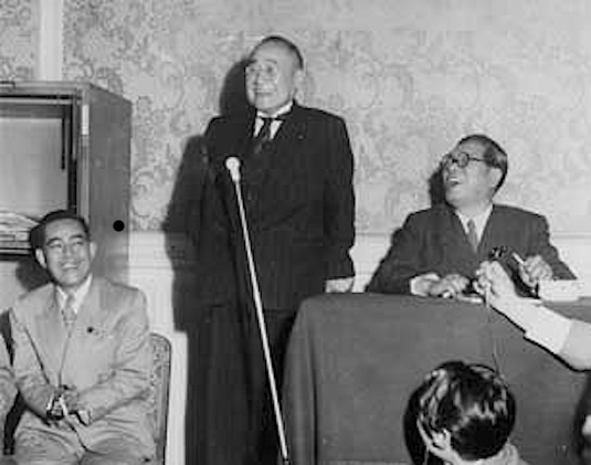 From left: Rep. Eisaku Satō (Minister of Construction), Rep. Shigeru Yoshida (Prime Minister), Rep. Saeki Ozawa (Party Chairman). At a Liberal Party meeting, 1953.